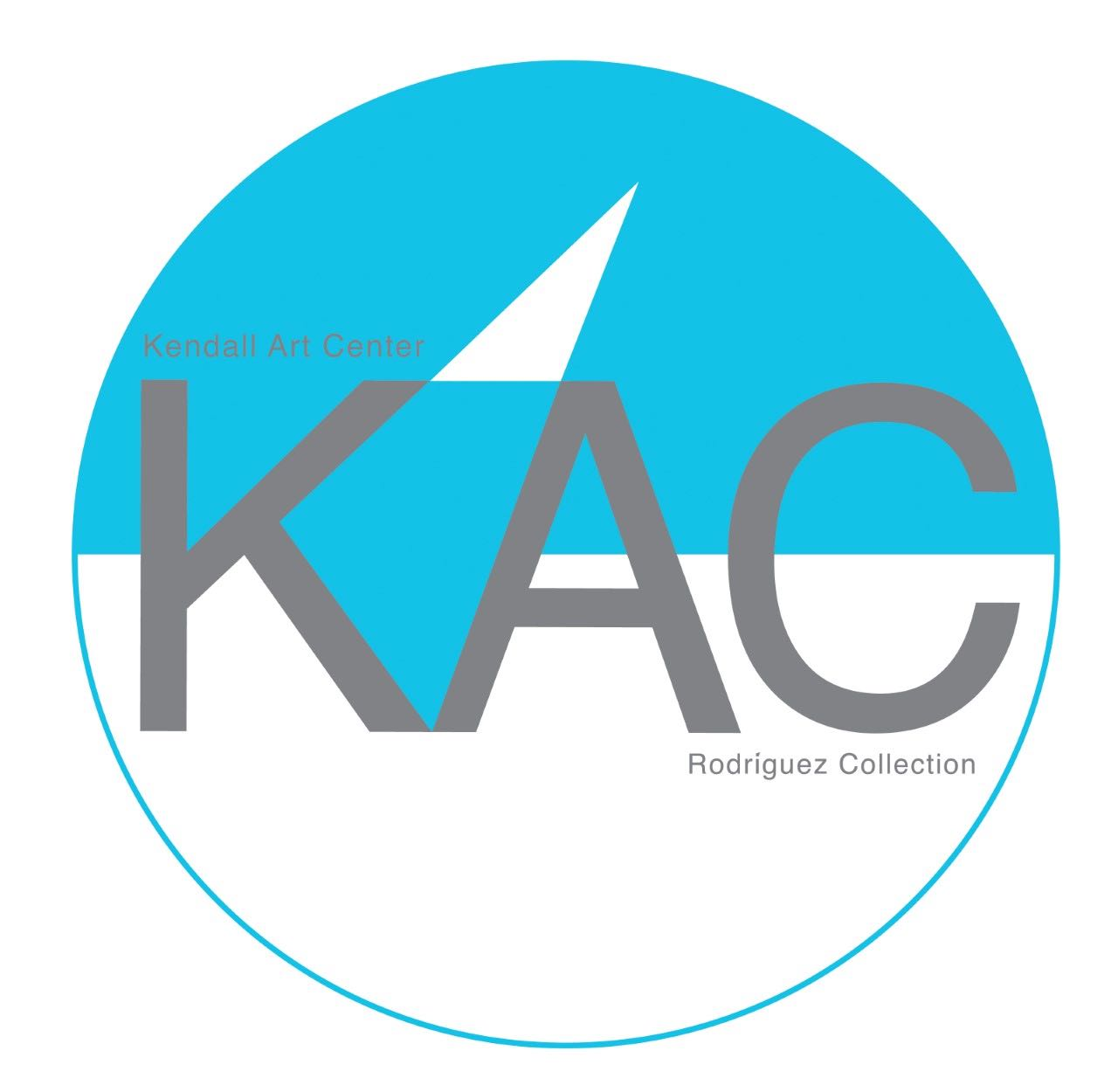 Kendall Art Center Logo